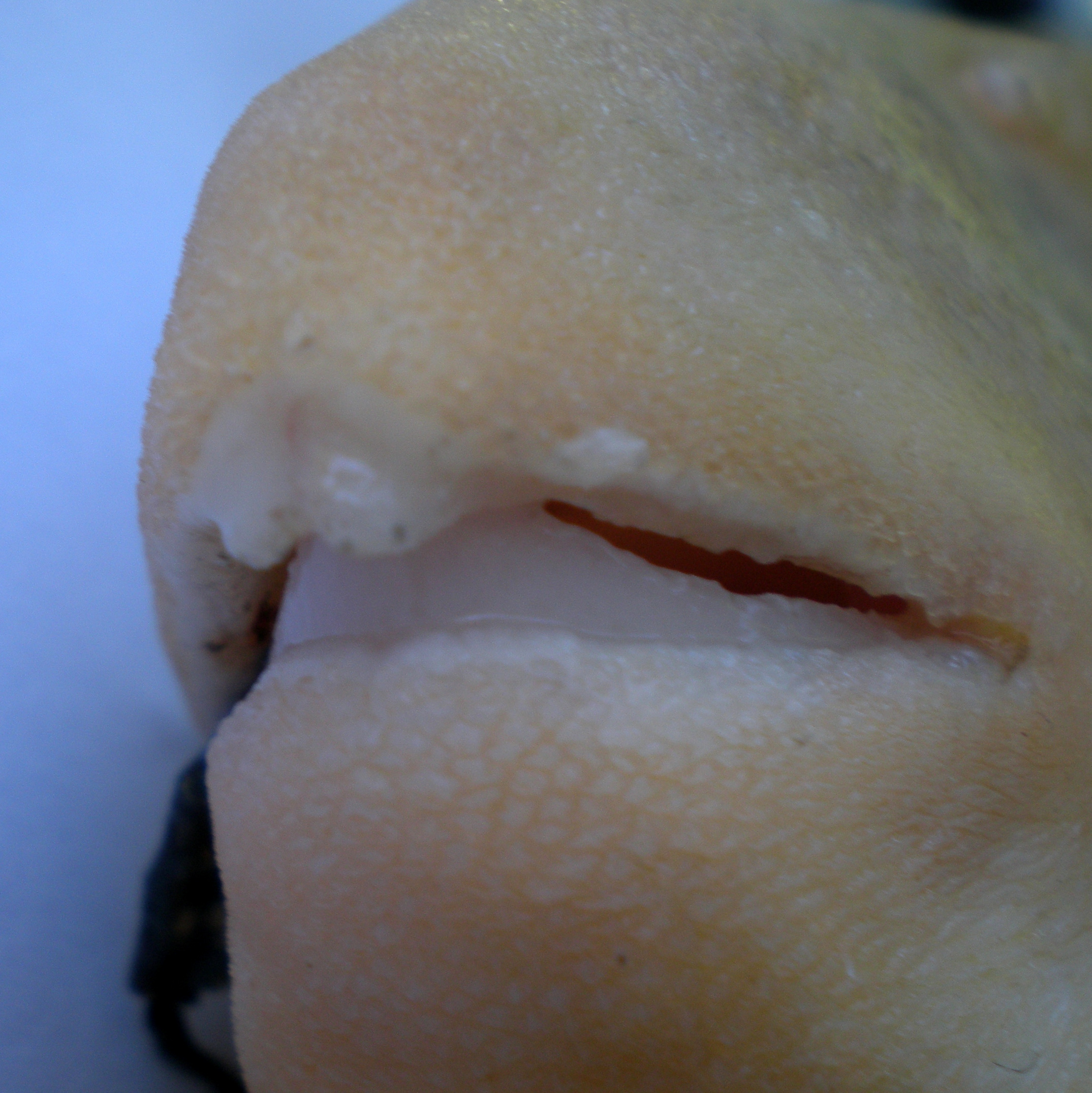 Triodon macropterus. Detail of teeth. Locality: Off Récif Toombo, off Nouméa, New Caledonia, depth 200-350 m, 22°34' 565S, 166°27'636E. Fork Length 361 mm, Weight 689 grams. Date 2009-07-02.